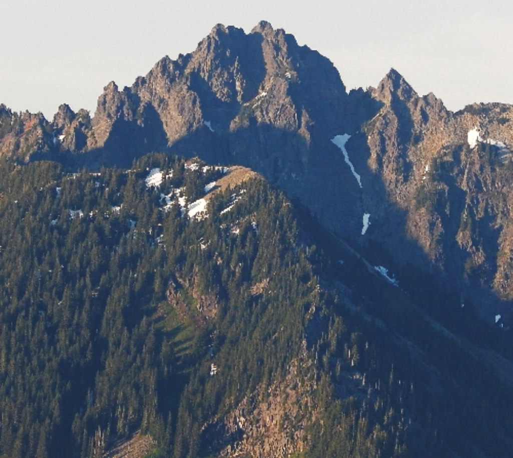 Chair Peak as seen from Bandera Mountain on July 2, 2014 shortly before sunset.